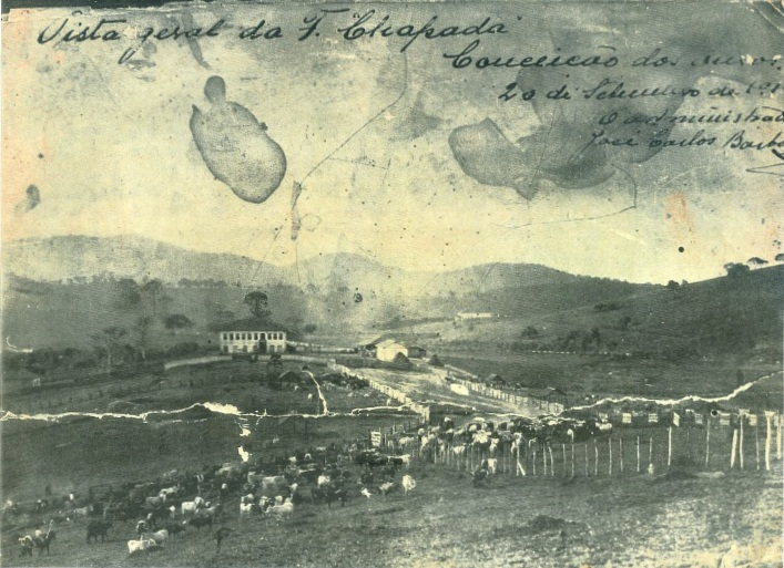 Vista parcial da Fazenda Chapada, Conceição dos Ouros -MG, entre 1910 e 1919.